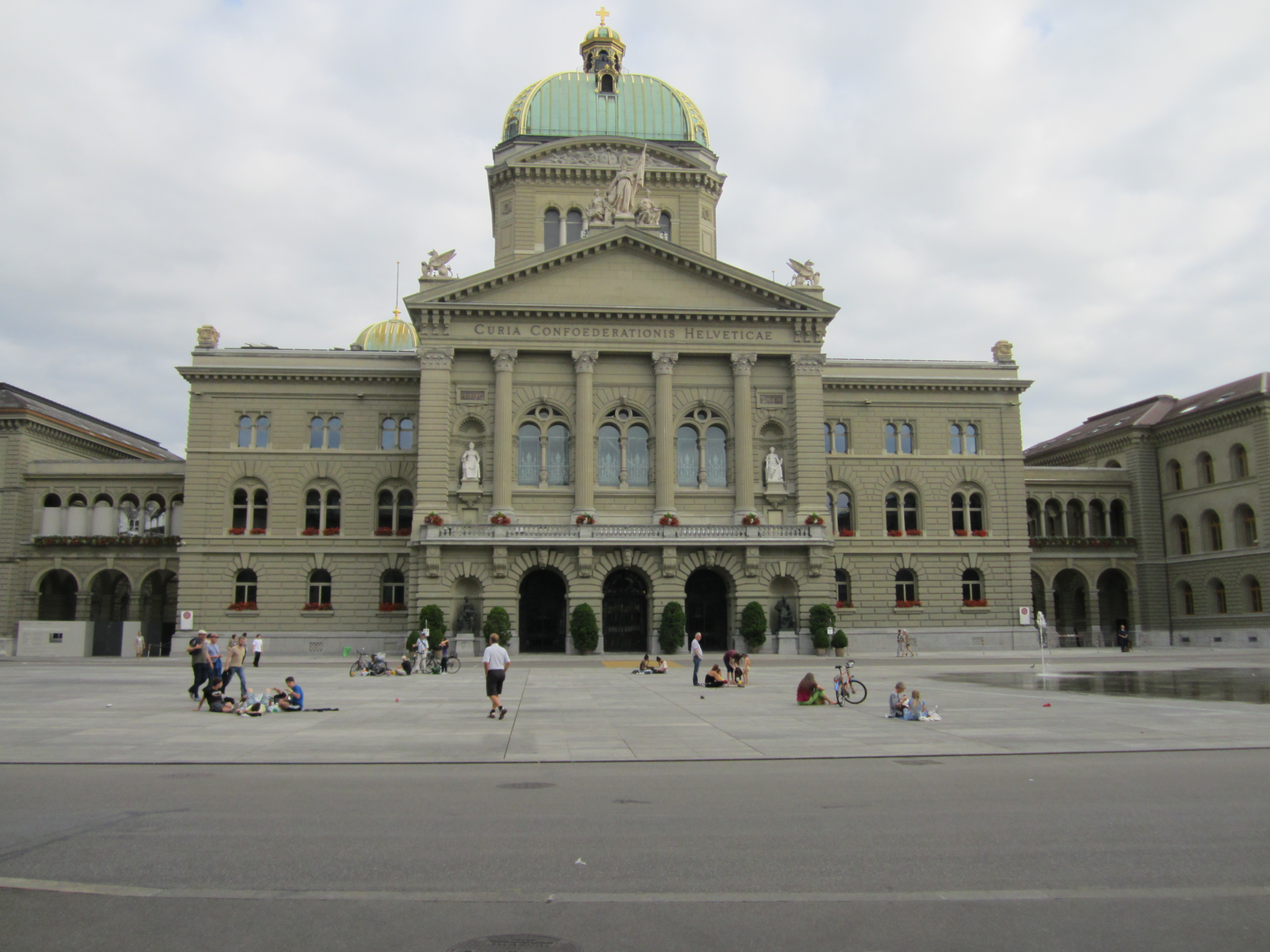 Swiss Parliament Building Bern 2011 view from Bundesplatz (Bern)